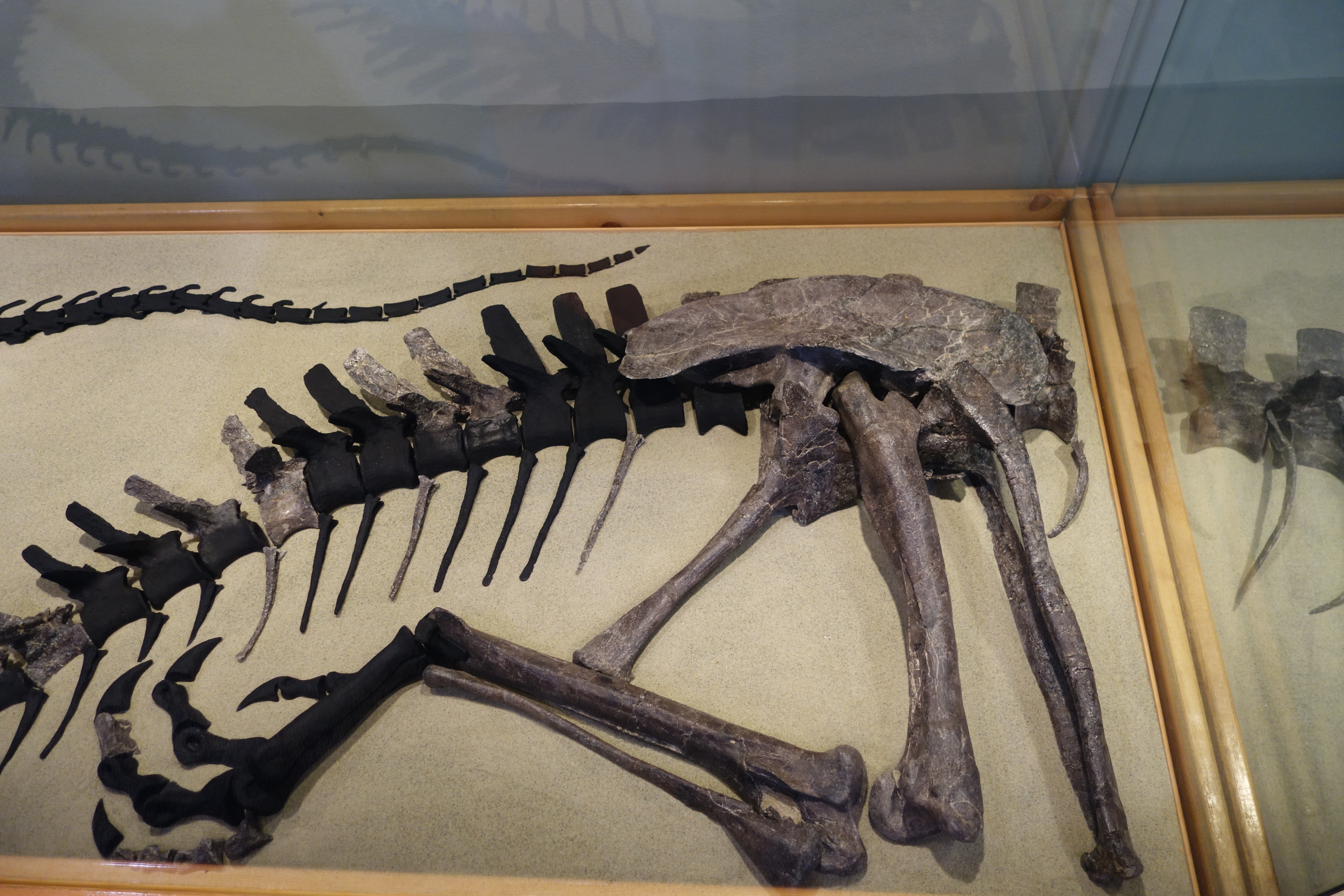 Posterior part of a fragmentary skeleton of a juvenile specimen of Ceratosaurus from Bone Cabin Quarry, Wyoming, on display at the North American Museum of Ancient Life, Lehi, Utah.